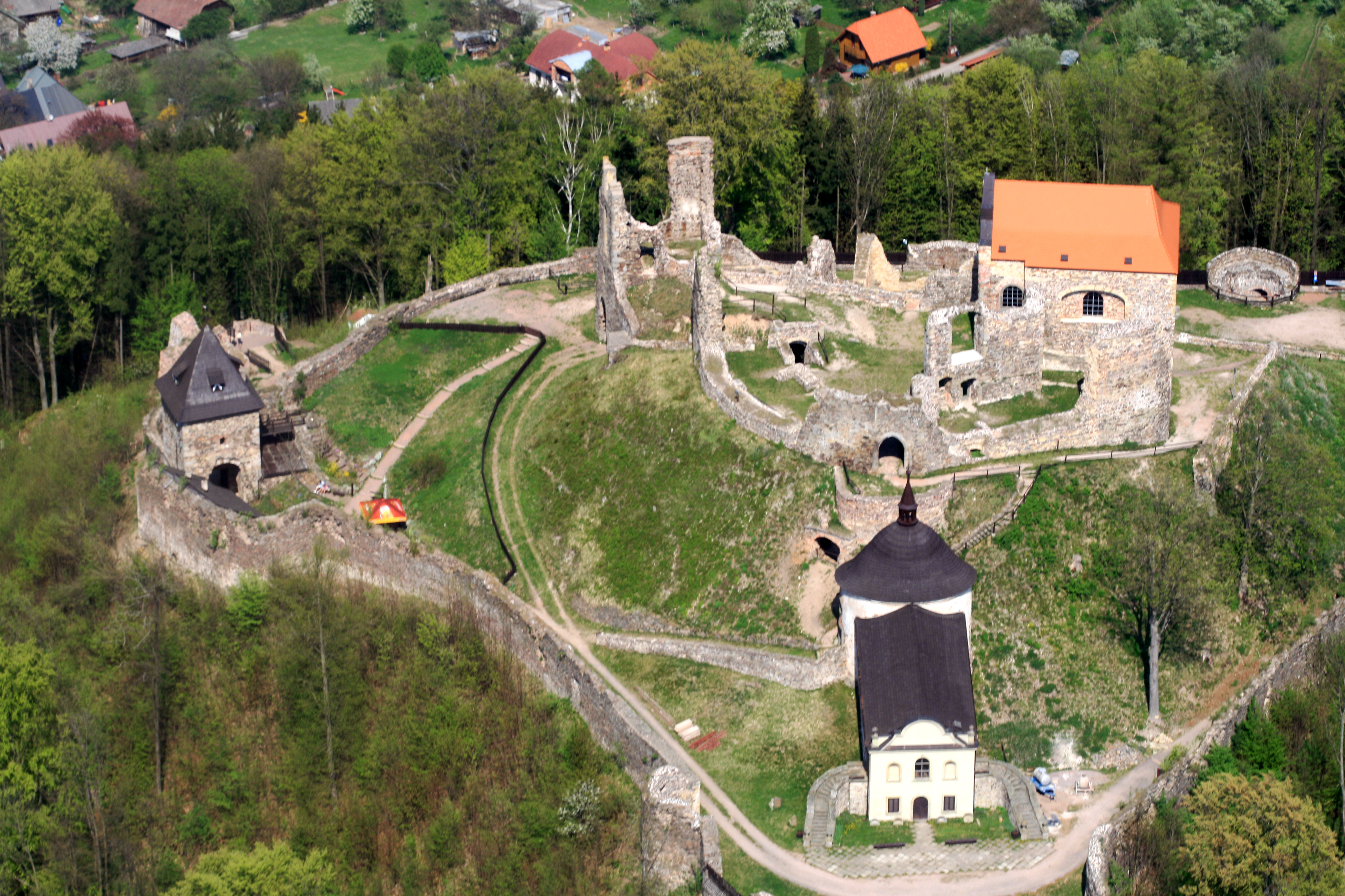 castle Potštejn from air, eastern Bohemia, Czech Republic